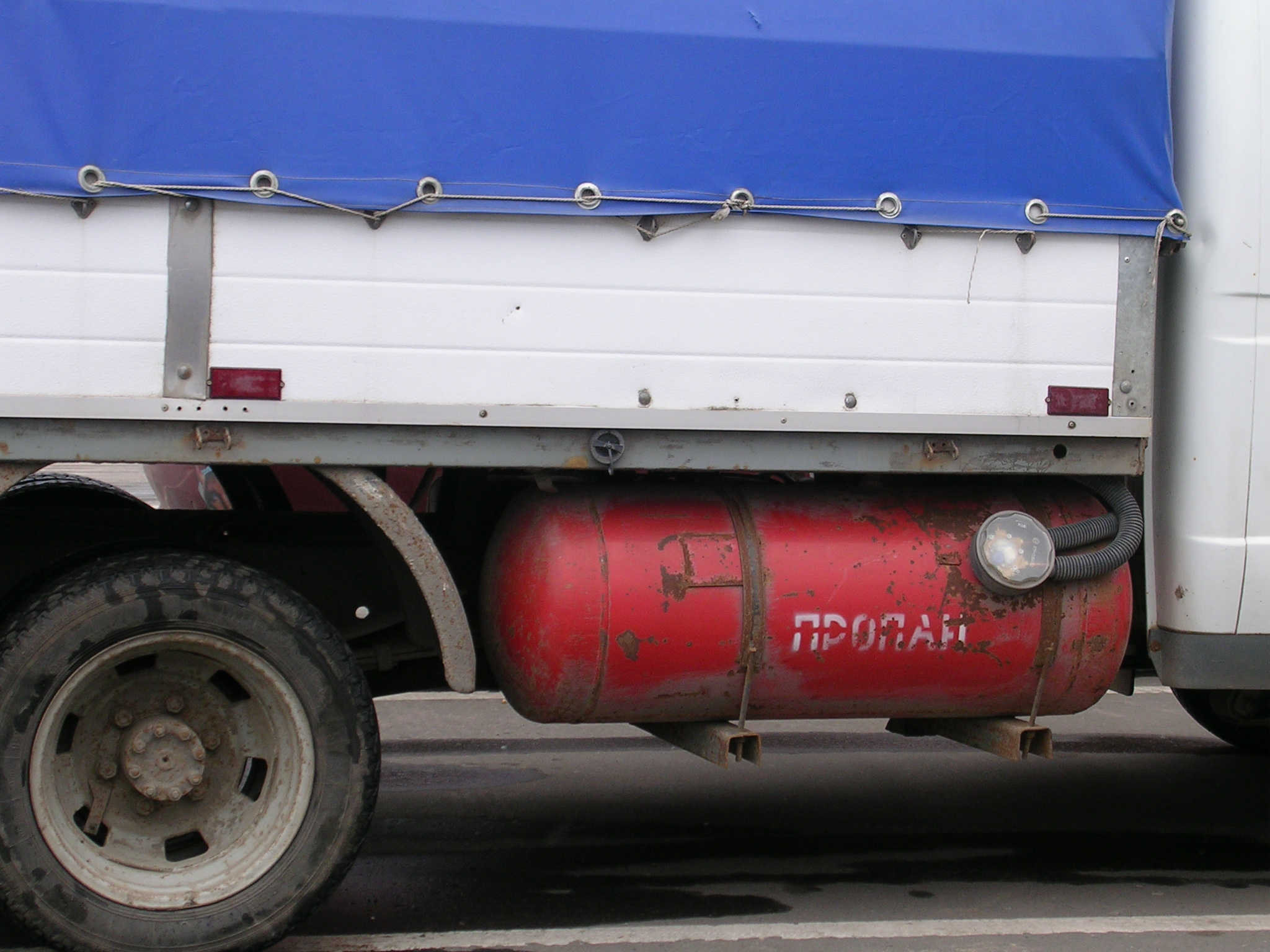 Typical modified GAZ 3302 by propane fuel